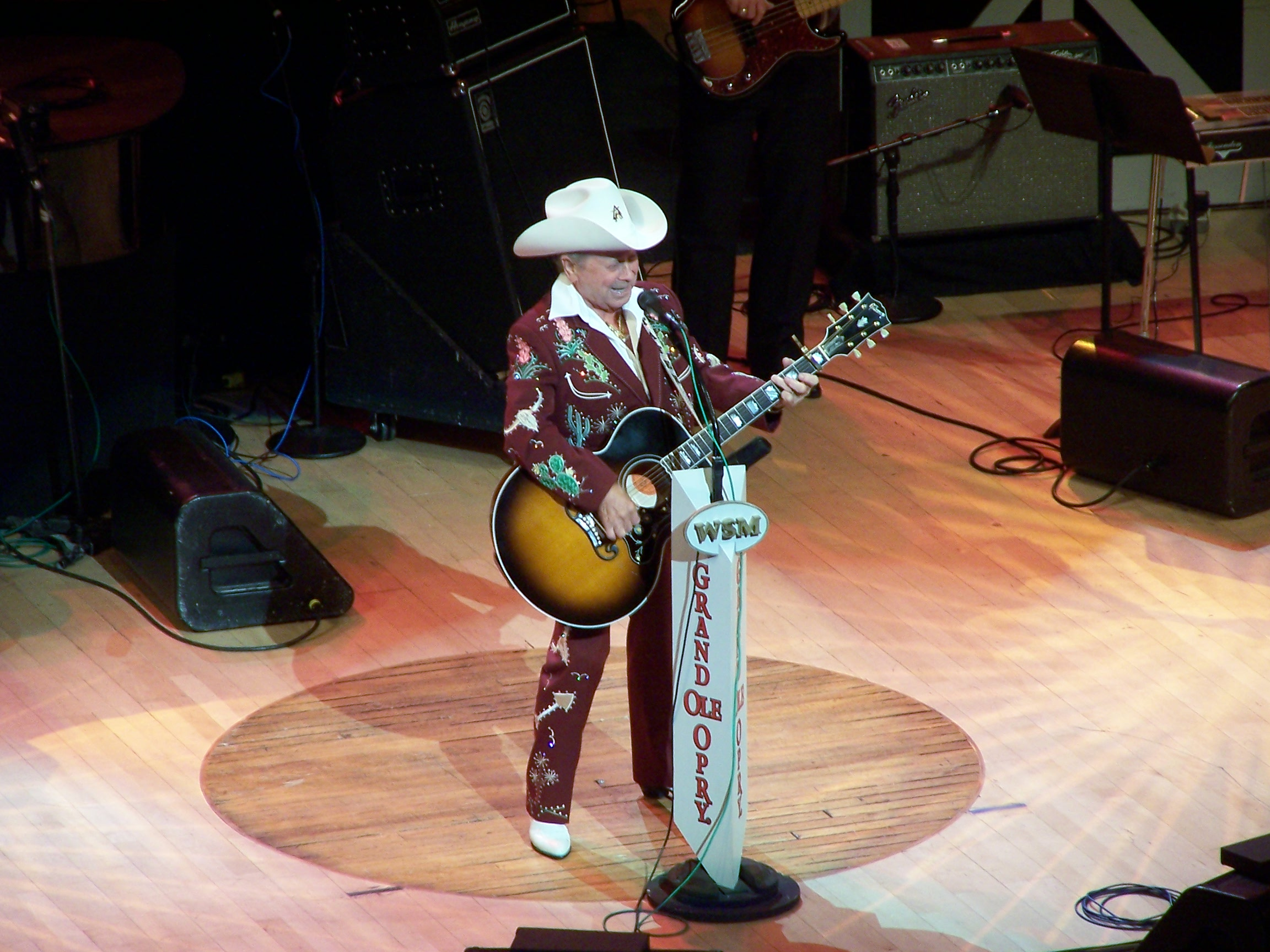 Grand Ole Opry, Nashville TN